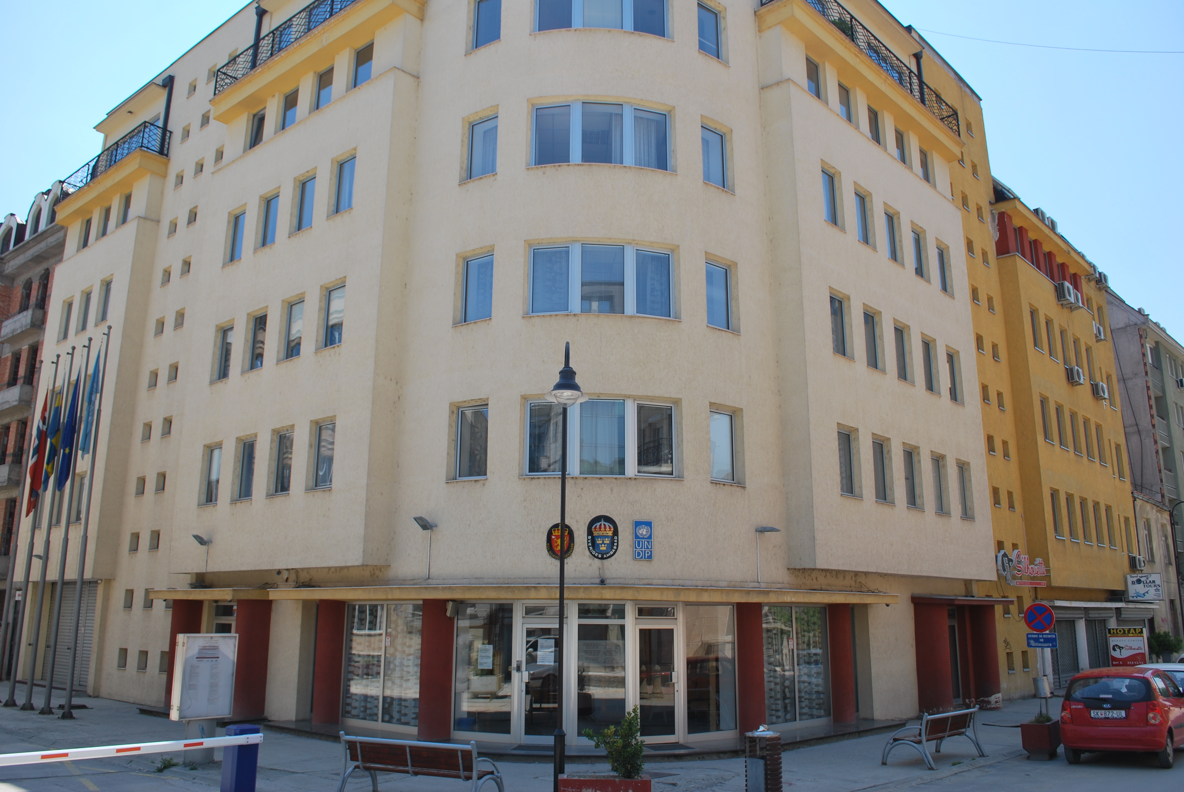 Skopje, Macedonia